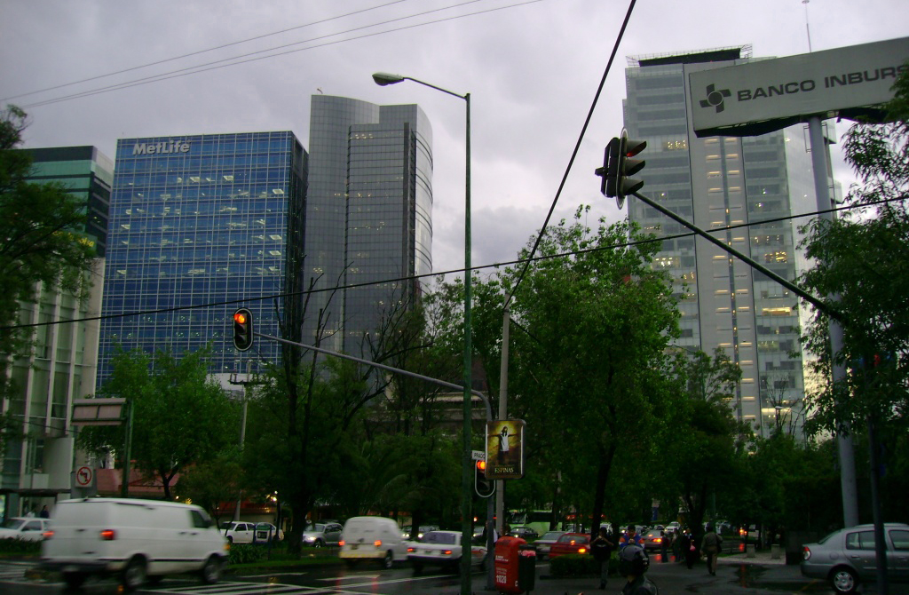 Polanco area of Mexico City